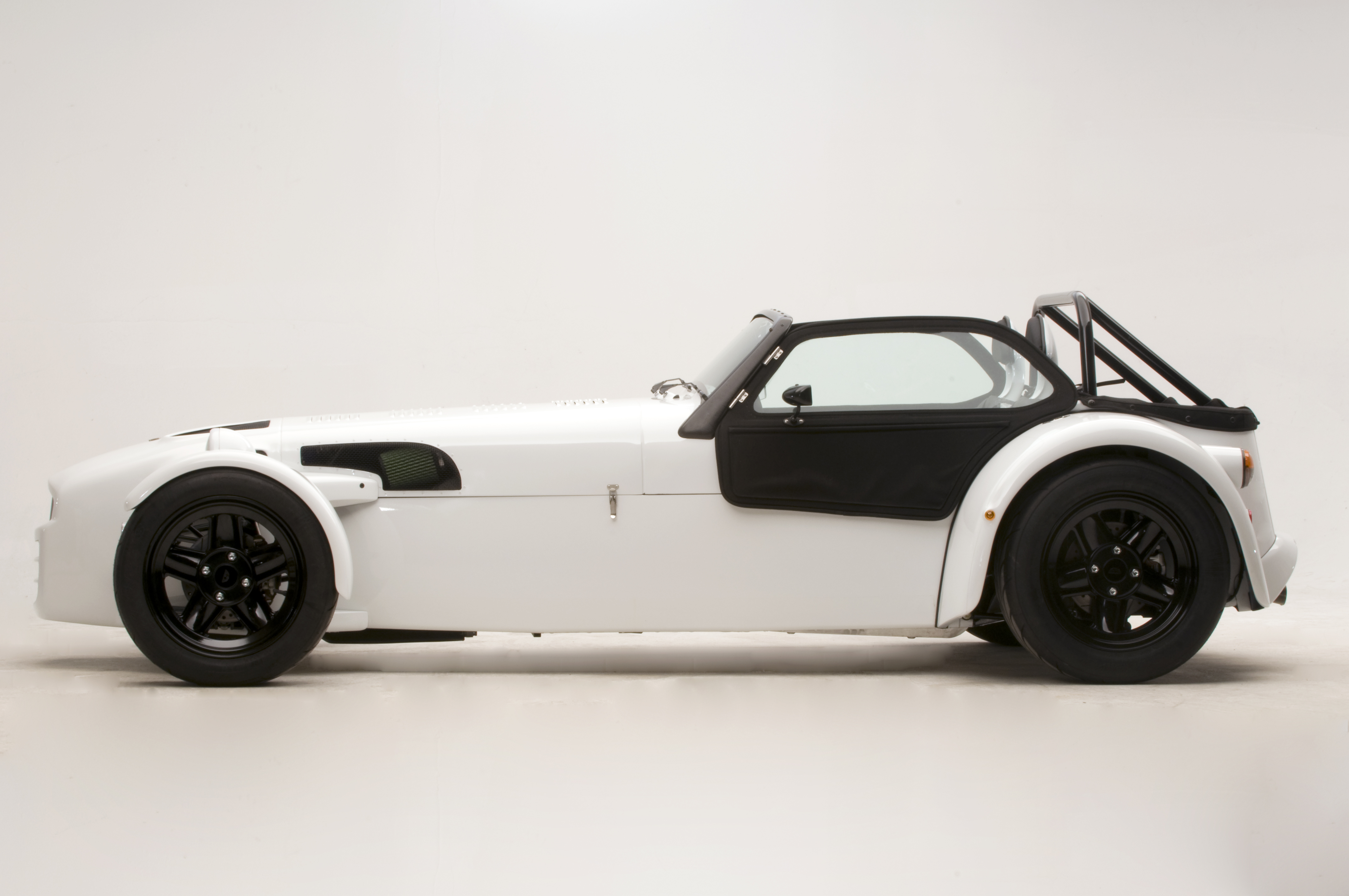 The D8 270 has been available since the summer of 2008. The top model of the D8 series and a logical follow-up of the successful D8 270 RS, the 2005 limited edition model. The D8 270 offers a sensational and especially fast driving experience, accelerating from 0 to 100 km/h in just 3.6 seconds! The D8 270 has a new nose and grill, which are a direct reference to the D8 GT.